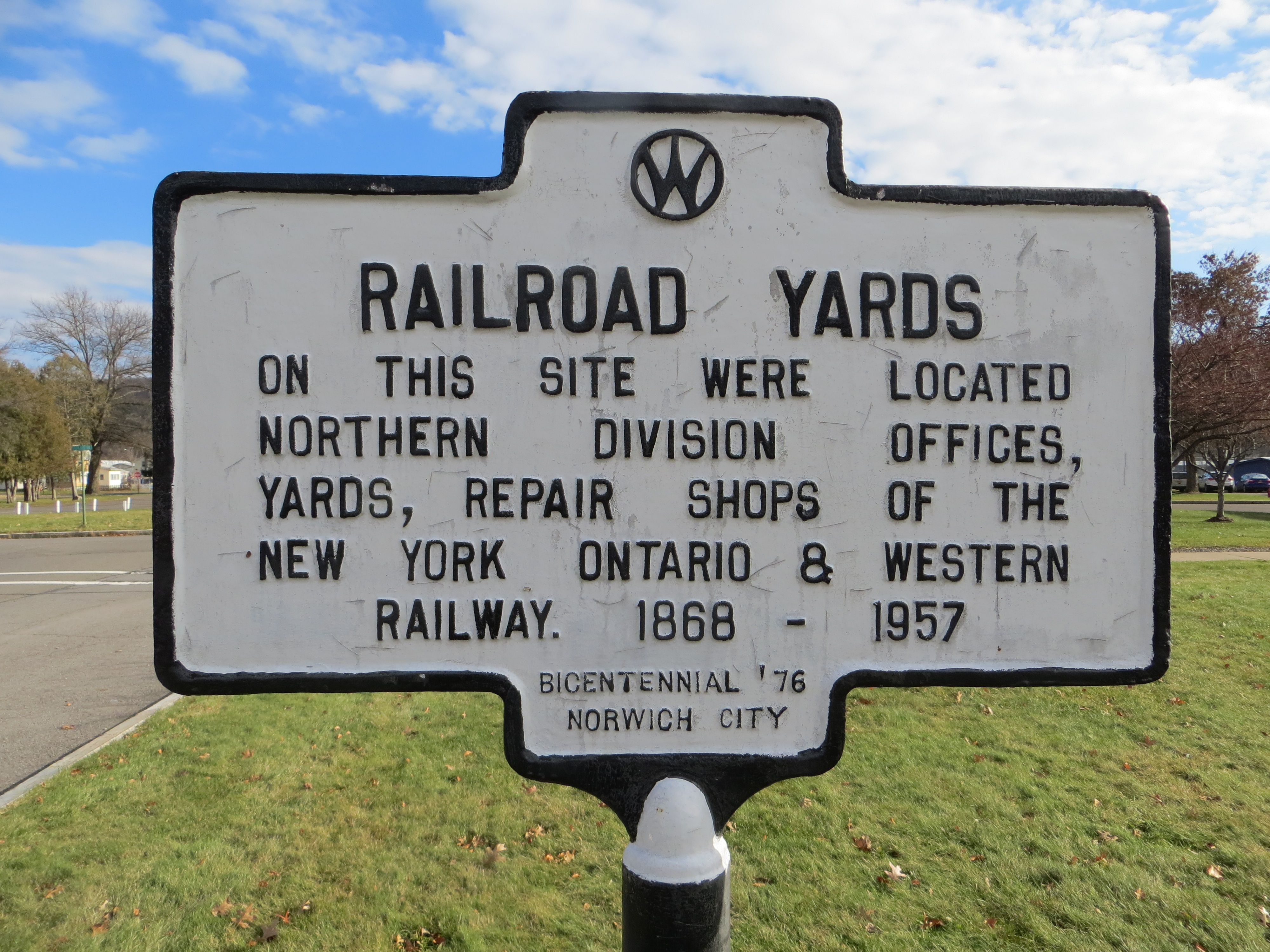 Historic marker of the Railroad Yards of the Northern Division offices, yards, repair shops of the New York Ontario & Western Railway of 1868-1957 that were located at this site.